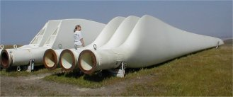 Replacement blades (~15 meters long) for wind propeller farm at Altamont Pass, California